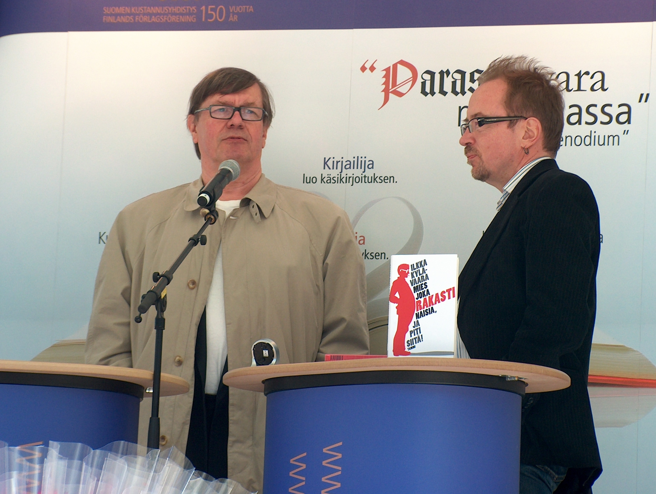 Finnish journalist and writer Ilkka Kylävaara interwieved by Juha Roiha on World Book Day 2008 in Helsinki